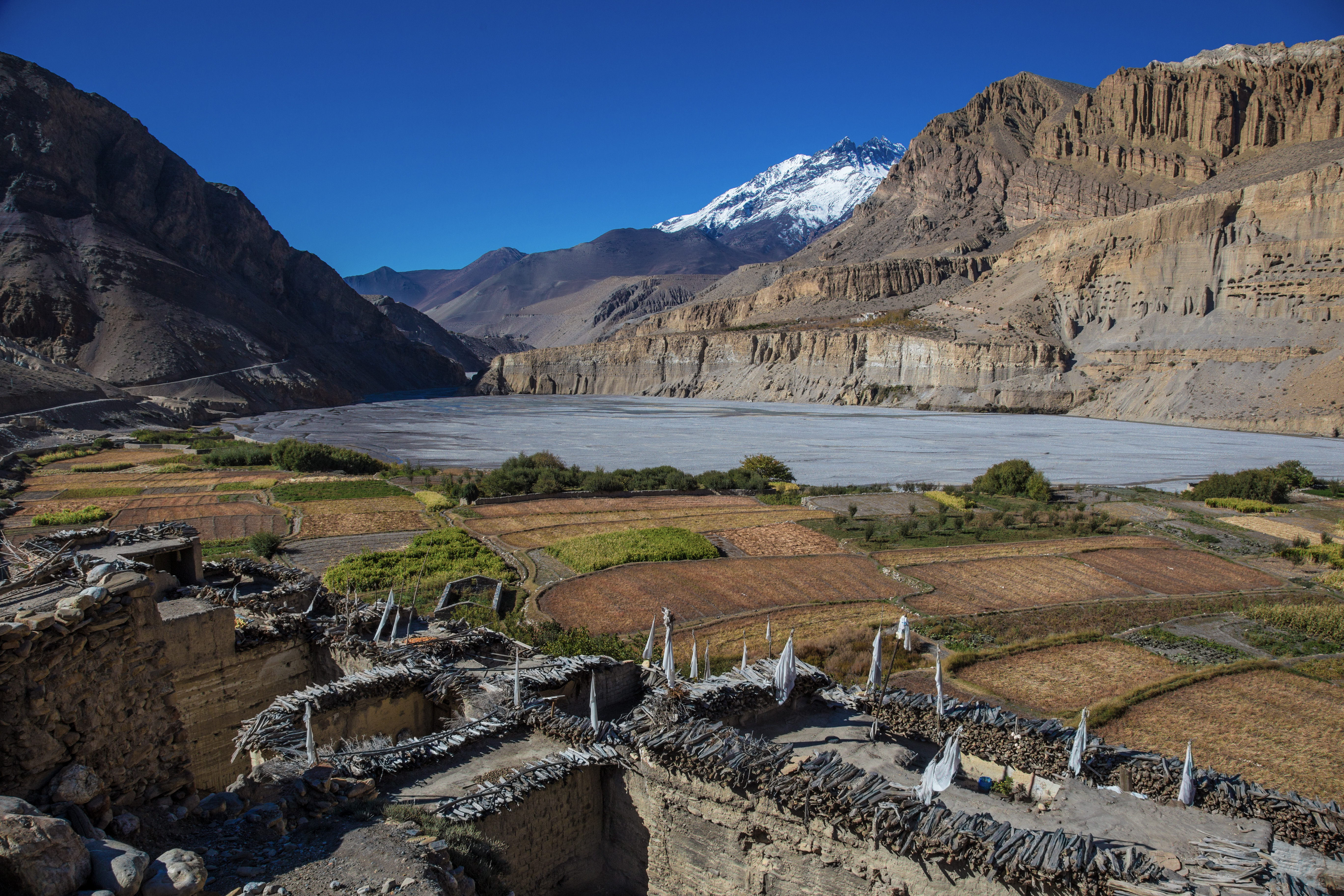 Set deep in the Kali Gandaki canyon, the village of Chhusang is surrounded by gigantic red, orange and silver gray cliffs spotted with cave dwellings. It is an active farming community and a fairly large settlement inhabited mostly by a mixed ethnic group of Gurungs, Thakalis and some families from the land of Lo. Notice the piles of split wood on the flat roofs of the old stone houses. The layered logs serve twin purpose: during rains and snow they prevent the water from seeping into the homes, besides adding to the beauty of the homes.